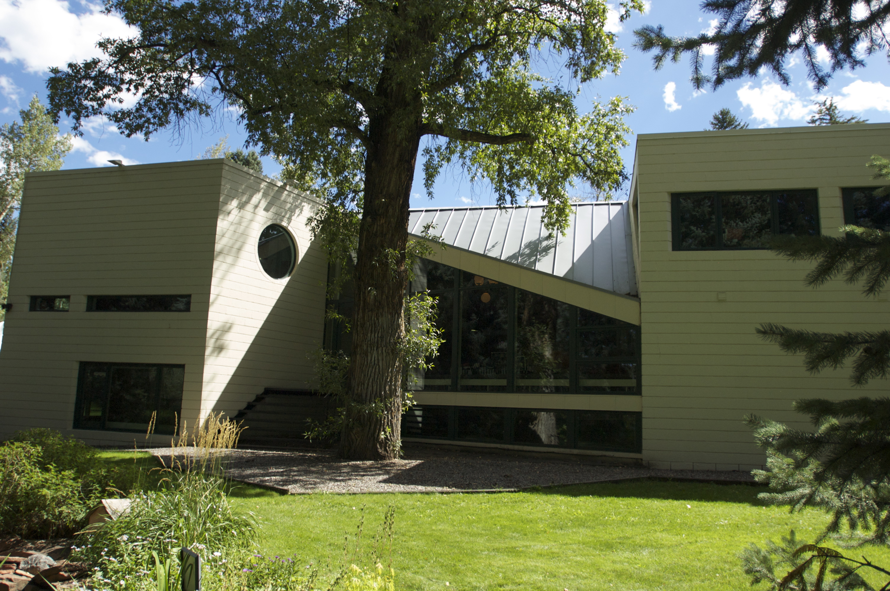 The West Side of the Given Institute in Aspen Colorado